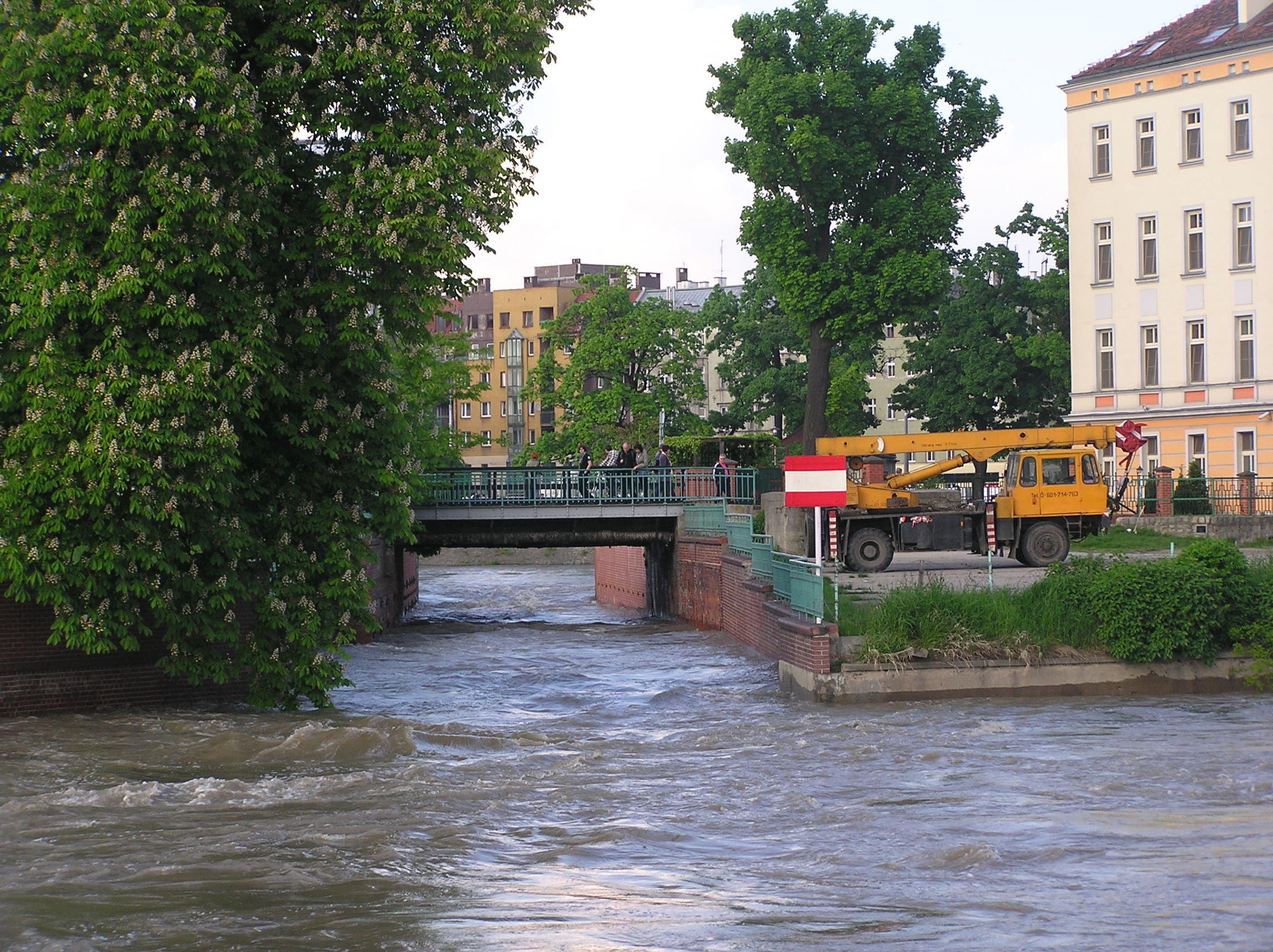 Wrocław, Słodowy Bridge